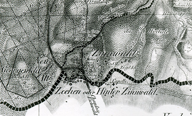 Zinnwald in an topographic atlas from 1821